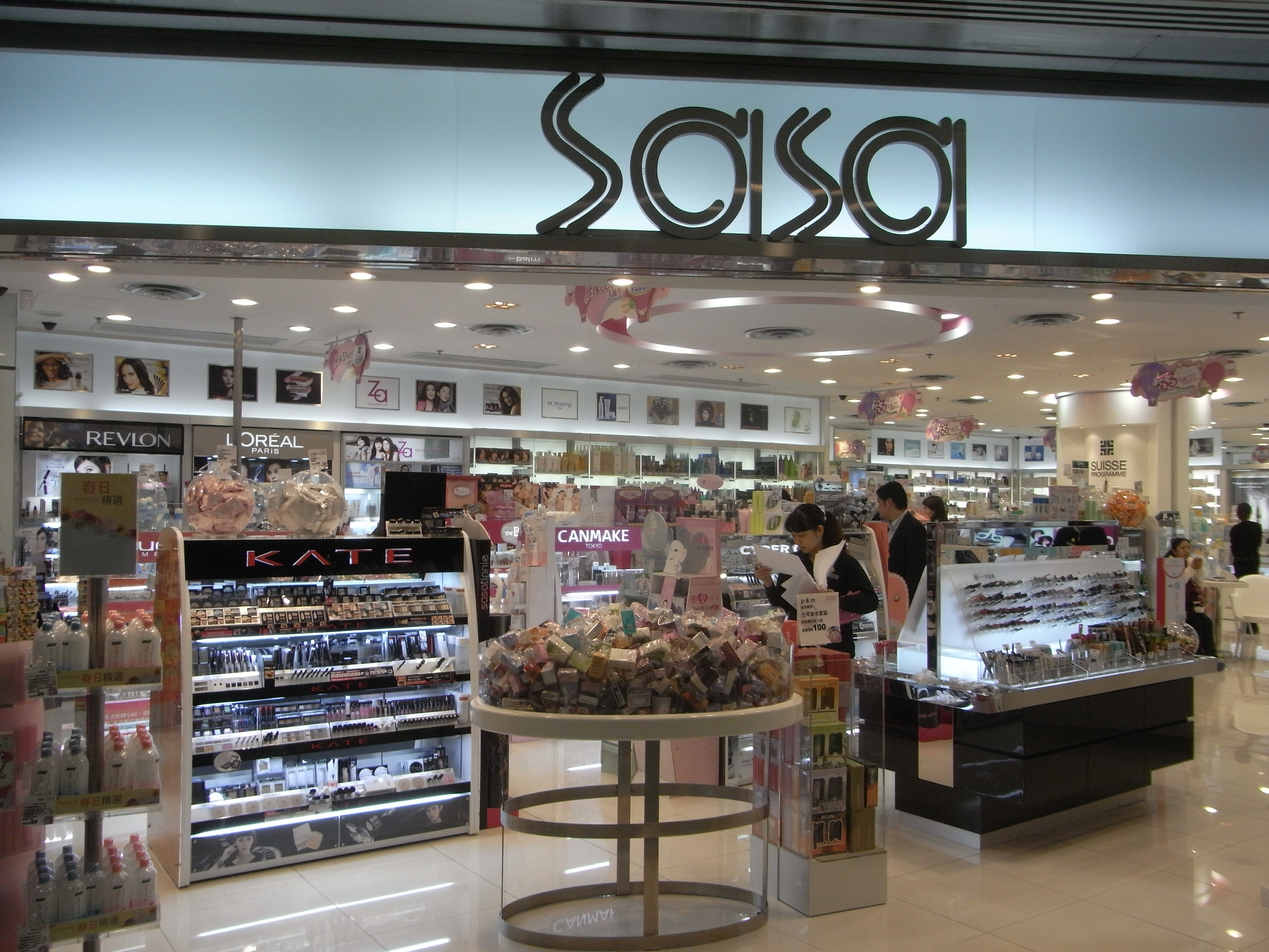 上環信德中心